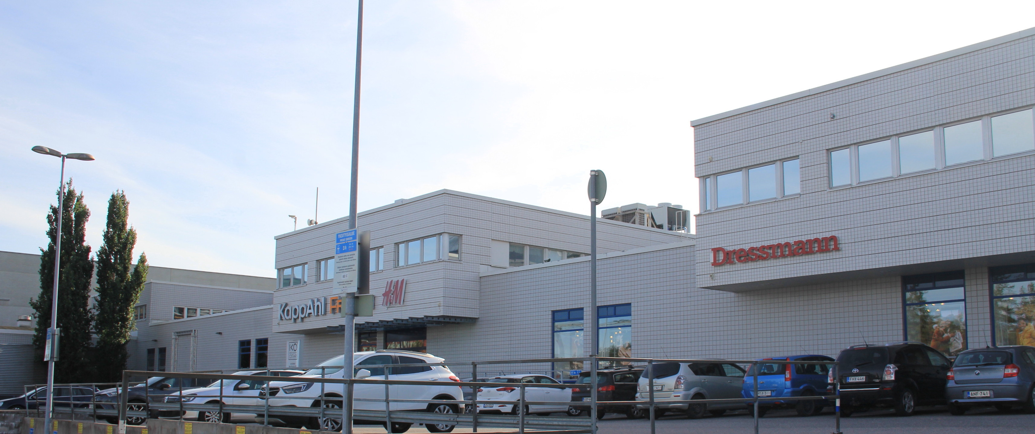 Kirkkonummi Shoppig mall close to railway station, Kirkkonummi, Finland.